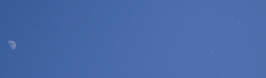 A trio of NOSS satellites passes the Moon. Taken on 13th May 2008 from Dunsink Observatory, Dublin.